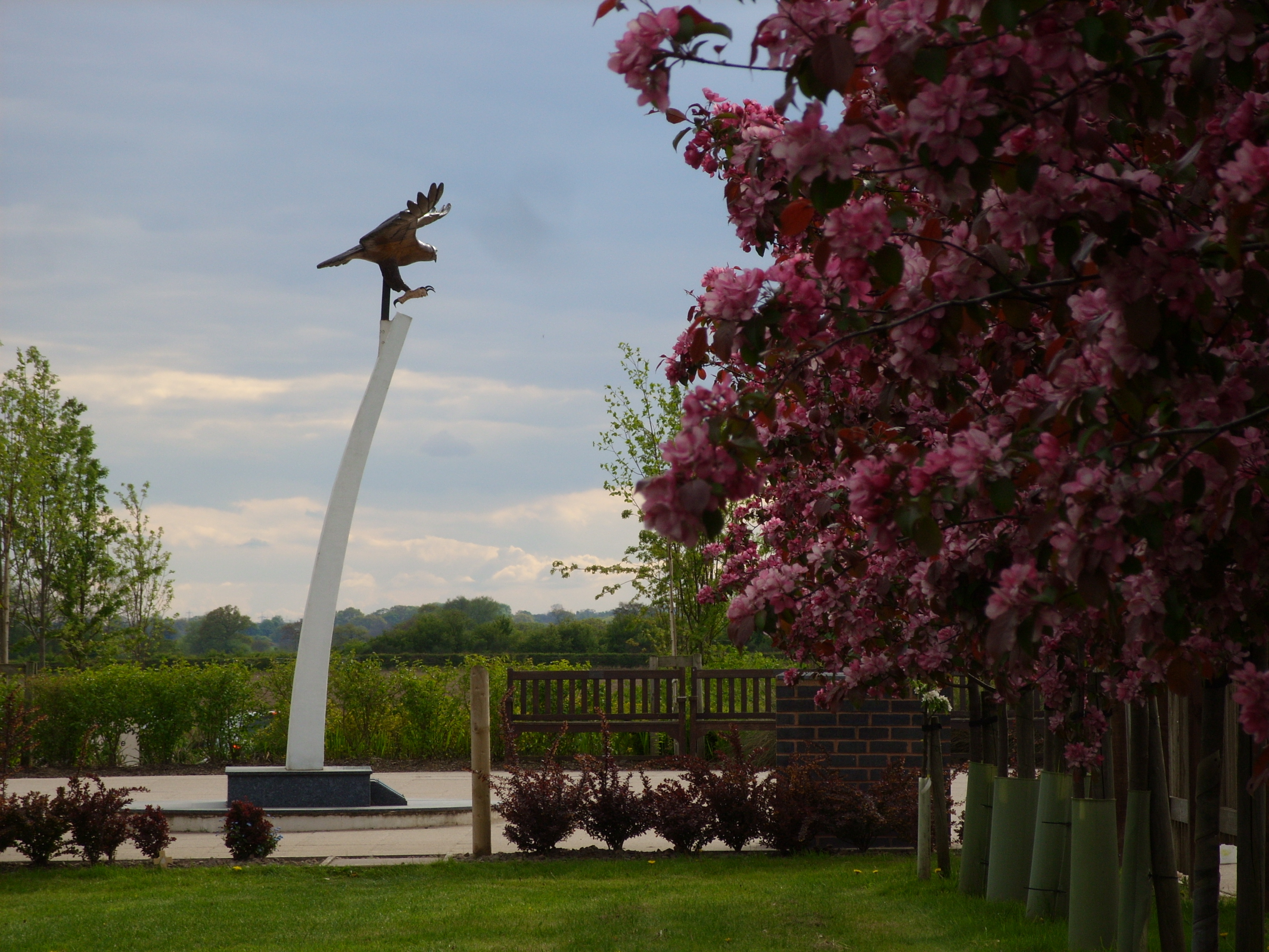 Berlin Airlift Memorial at National Memorial Arboretum, Staffordshire